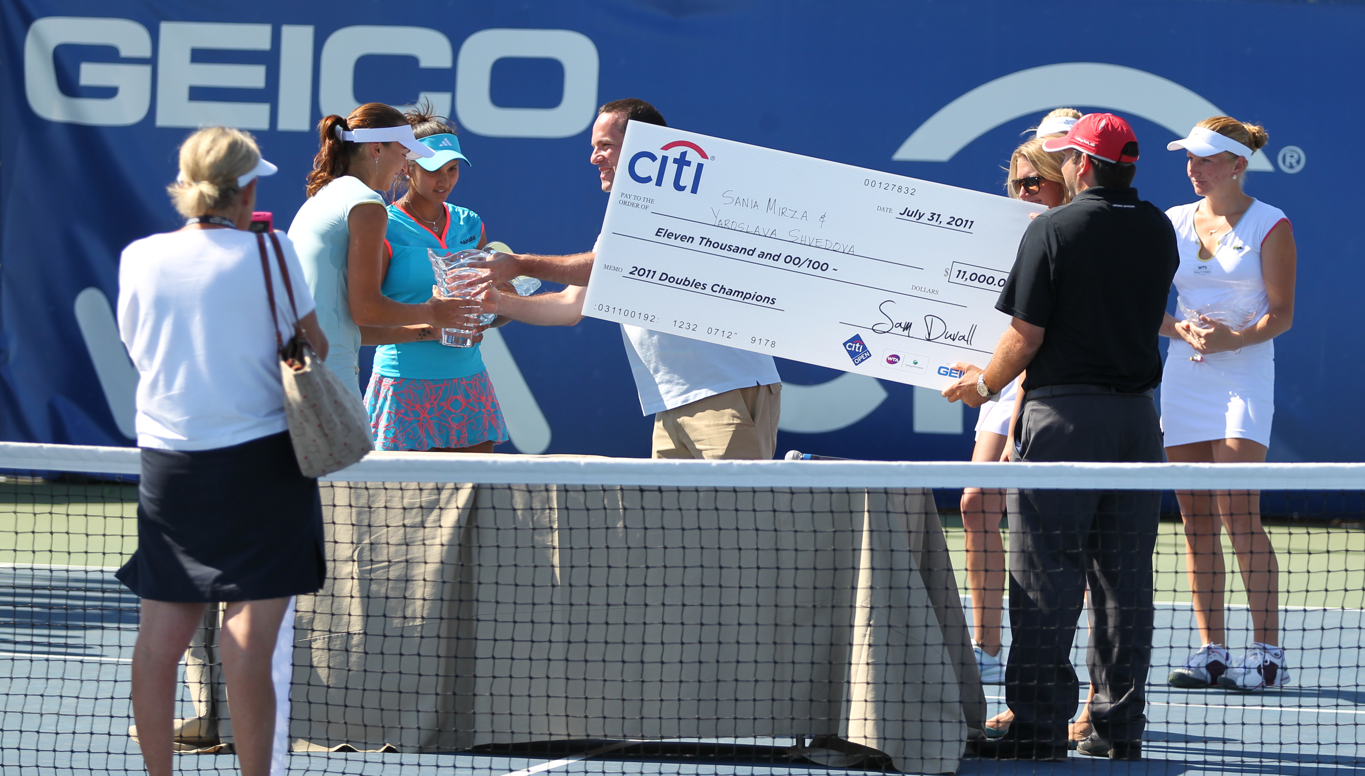 Citi Open Tennis Finals July 31, 2011